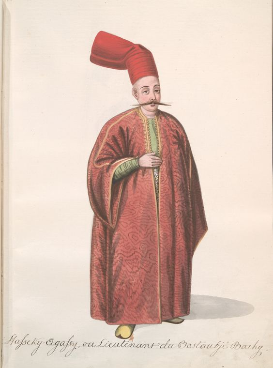 Haseki agasi, Lieutenant of the imperial guards. Drawing from Album of Turkish Costume Paintings.